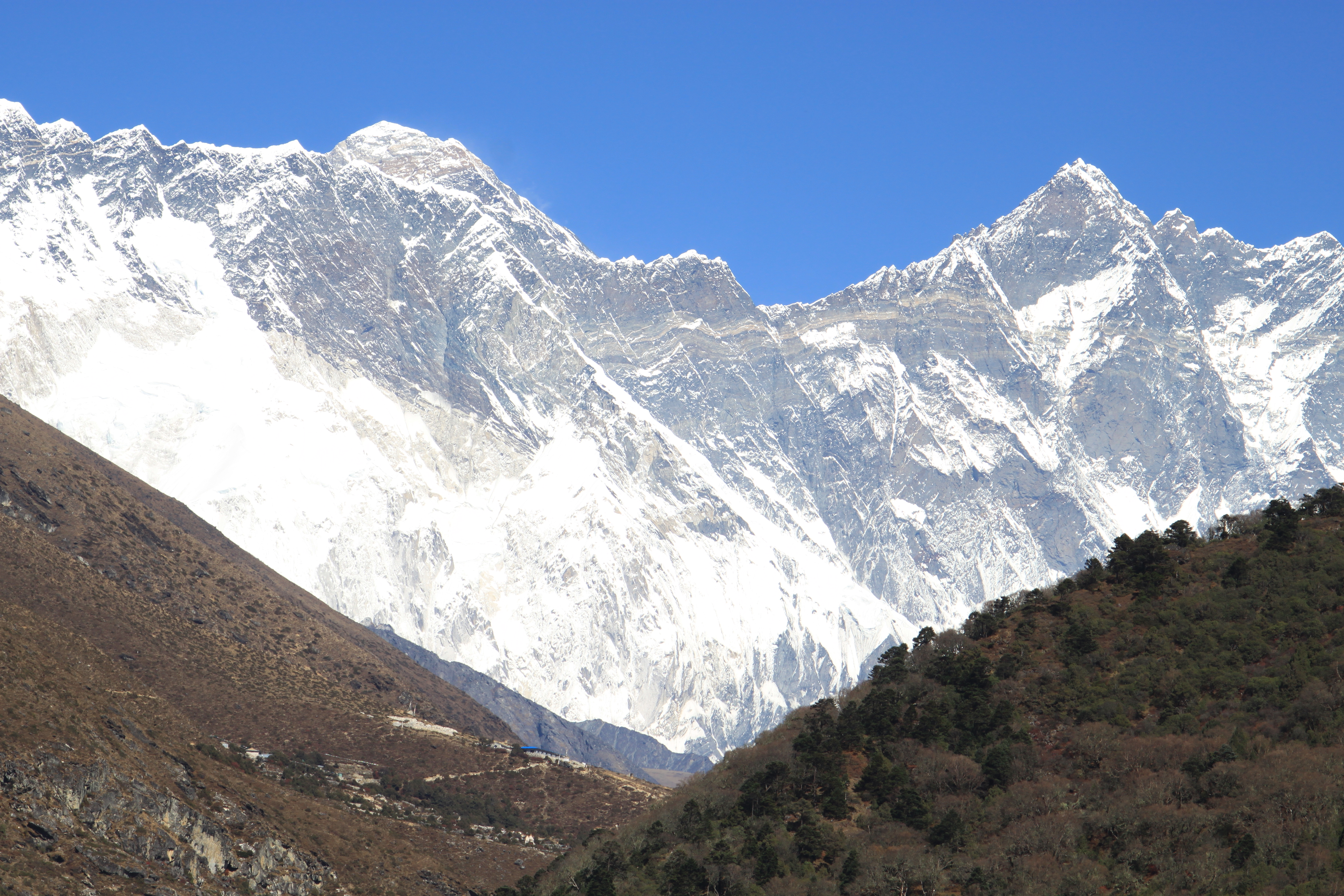 Part of Nuptse, Mt. Everest and Lhotse with geological formation (yellow Band)